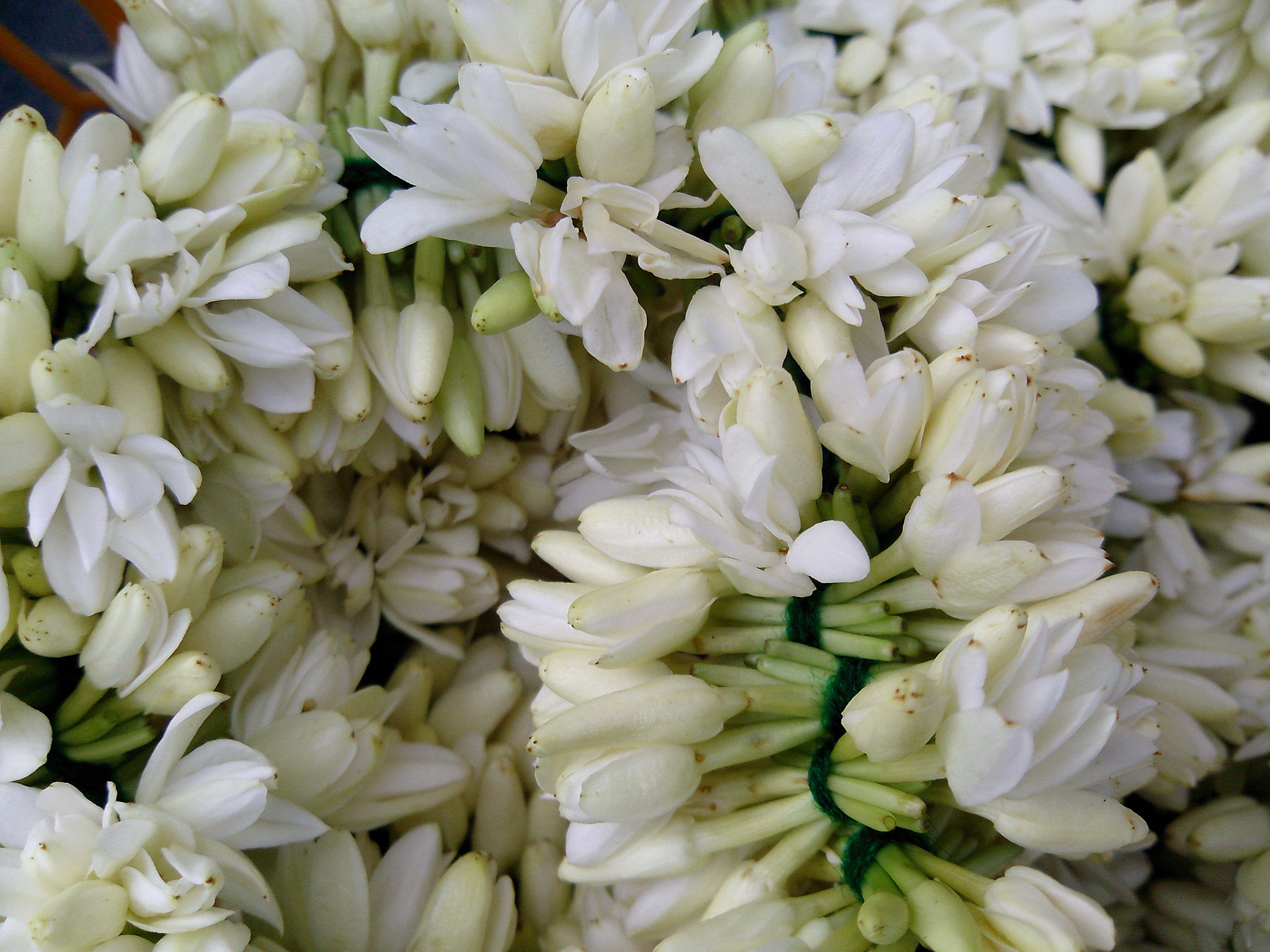 Jasmin Flower